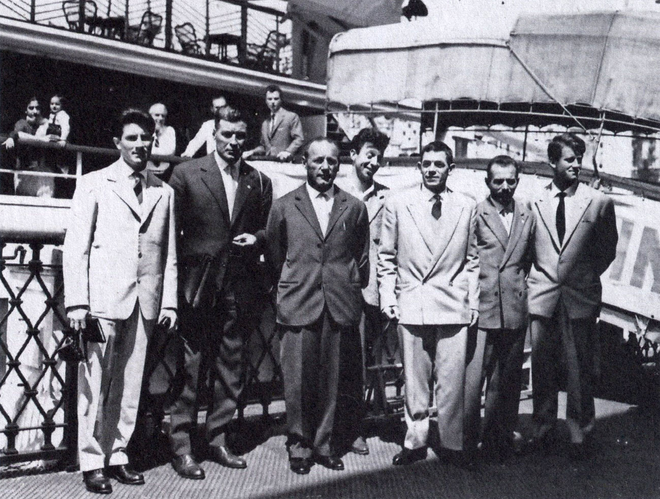 Genoa, April 30, 1958. The Italian expedition to Gasherbrum IV departing from the Ponte dei Mille marine station, before embarking on the Lloyd Triestino's motor ship Victoria; you can recognize Walter Bonatti (left) and Carlo Mauri (right), the two Italian mountain climbers who will manage to conquer the mountain for the first time in history.